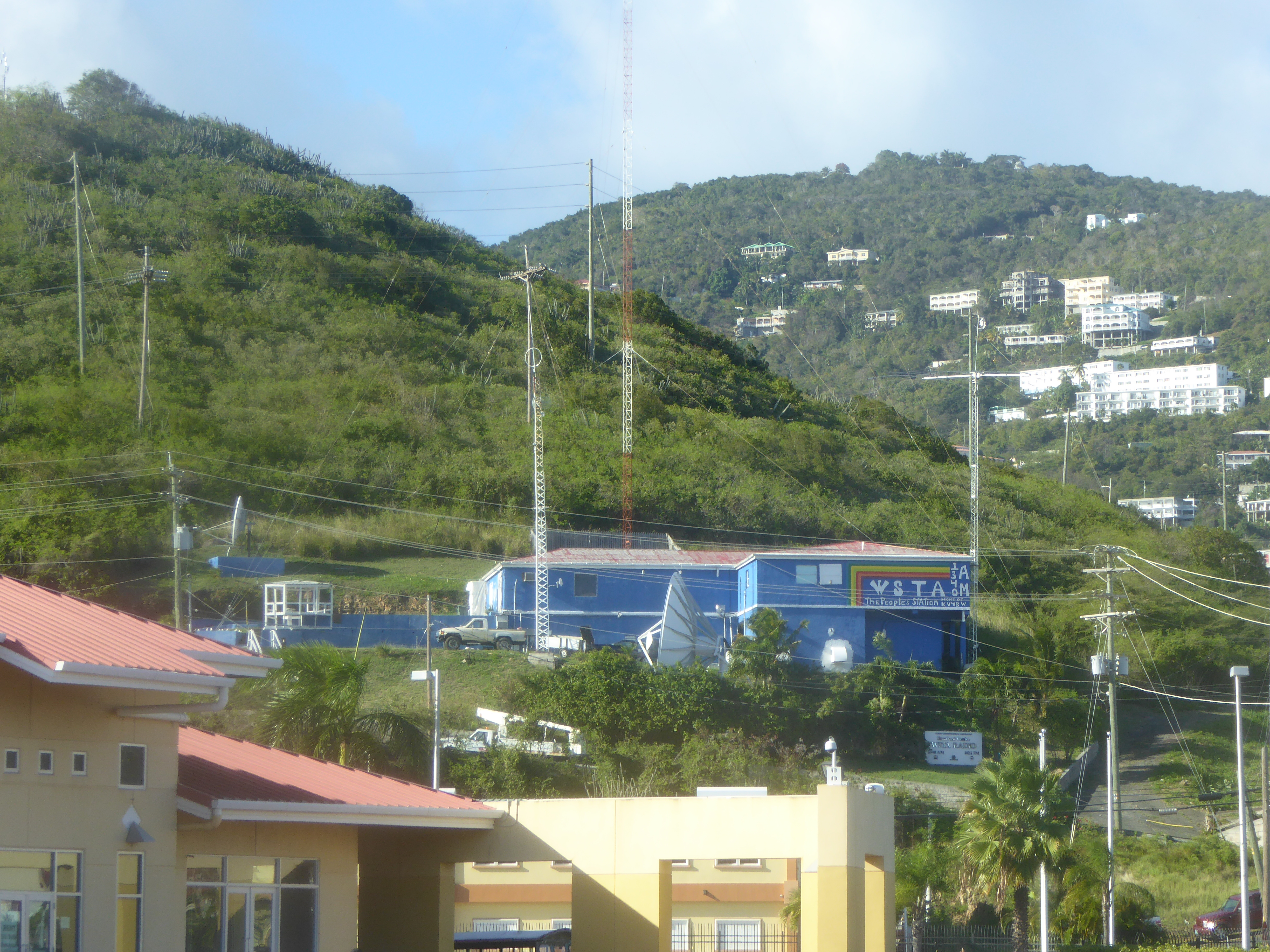 Radio station of WSTA "The People's Station" (1340kHz AM)